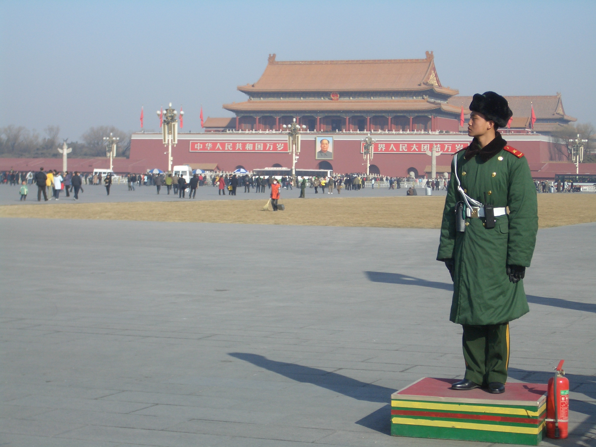 Chinese policeman before the gate of Heavenly Peace, Tiananmen Square, Beijing, China